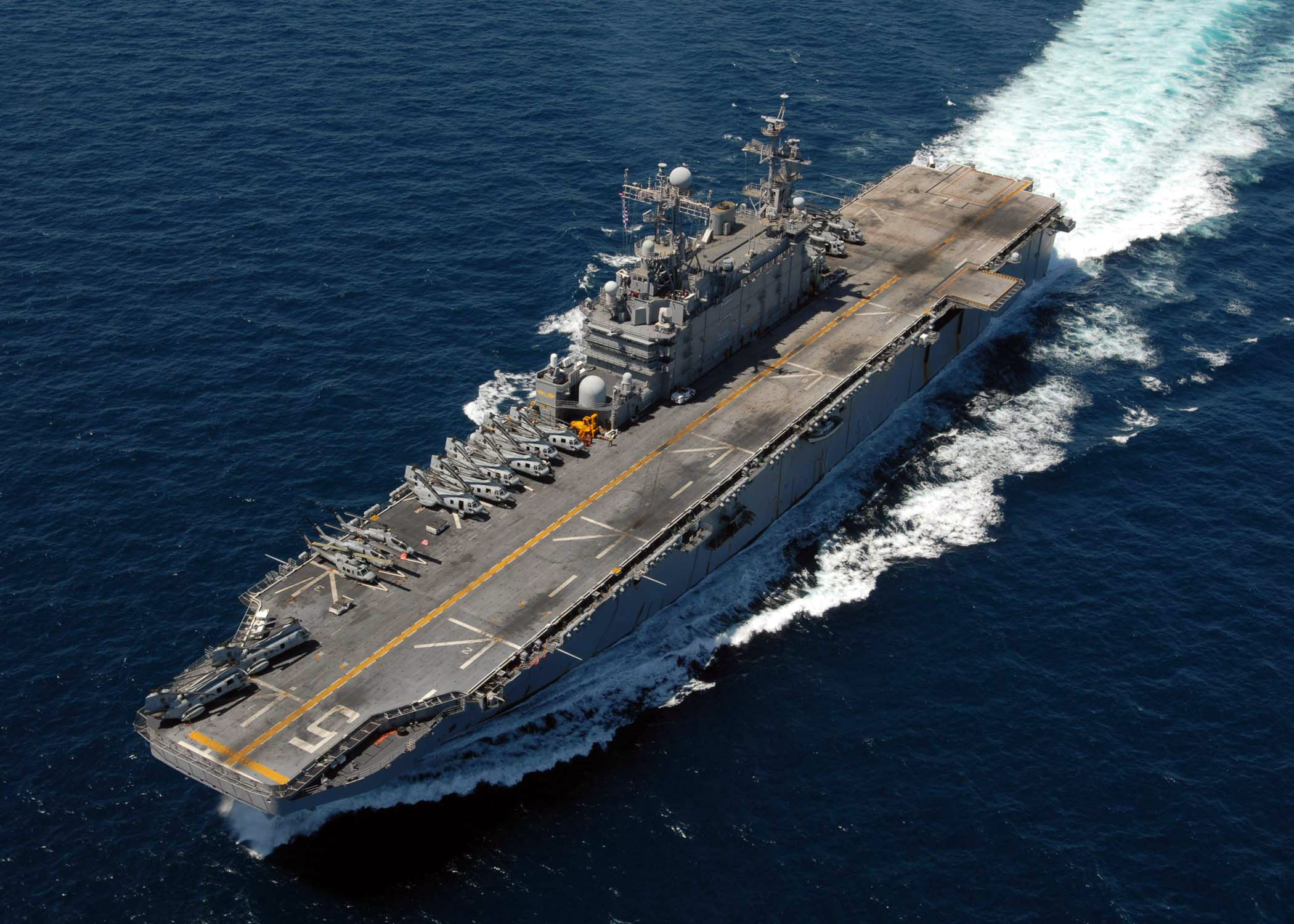 The Tarawa-class amphibious assault ship USS Peleliu (LHA 5) steams through the South China Sea. Peleliu is the flaghsip of the Peleliu Expeditionary Strike Group and is on a scheduled deployment.